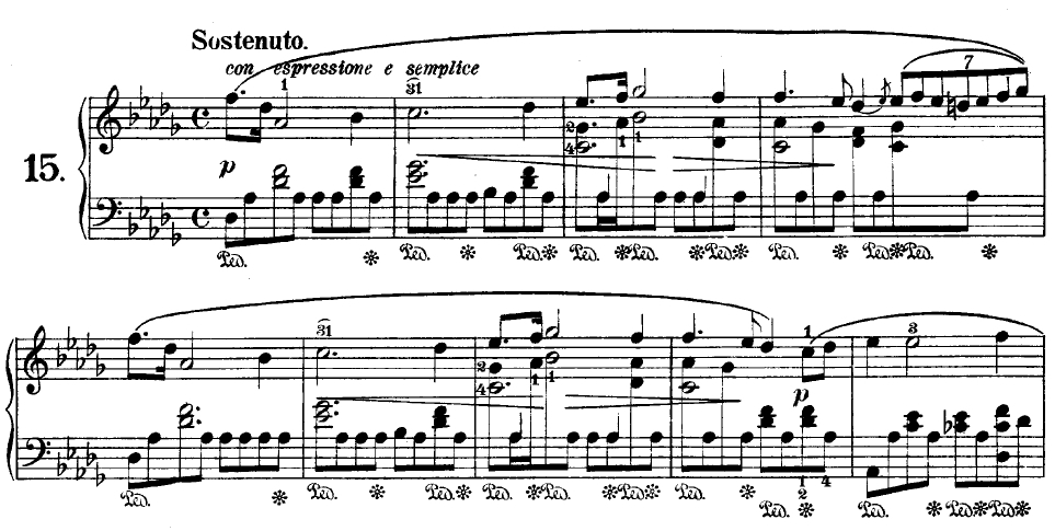 Opening bars of Chopin's Raindrop Prelude (no.6)